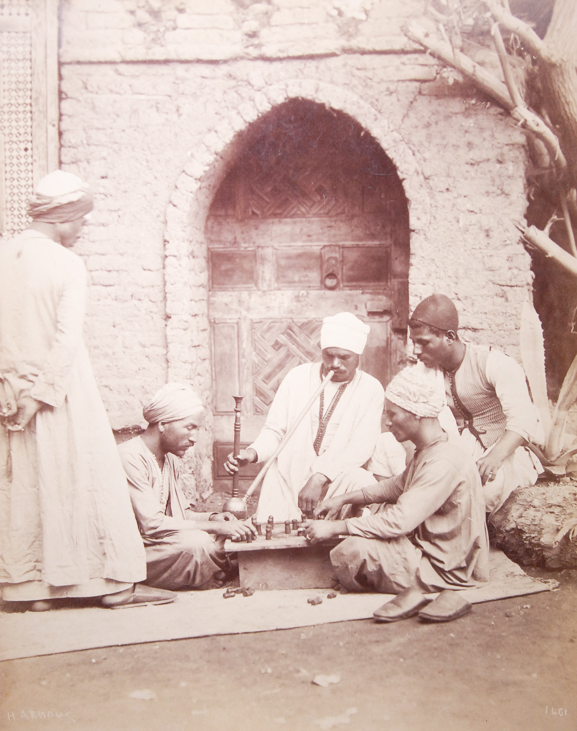 An image by the photographer Hippolyte Arnoux apart of the SaulsoCollection of photography